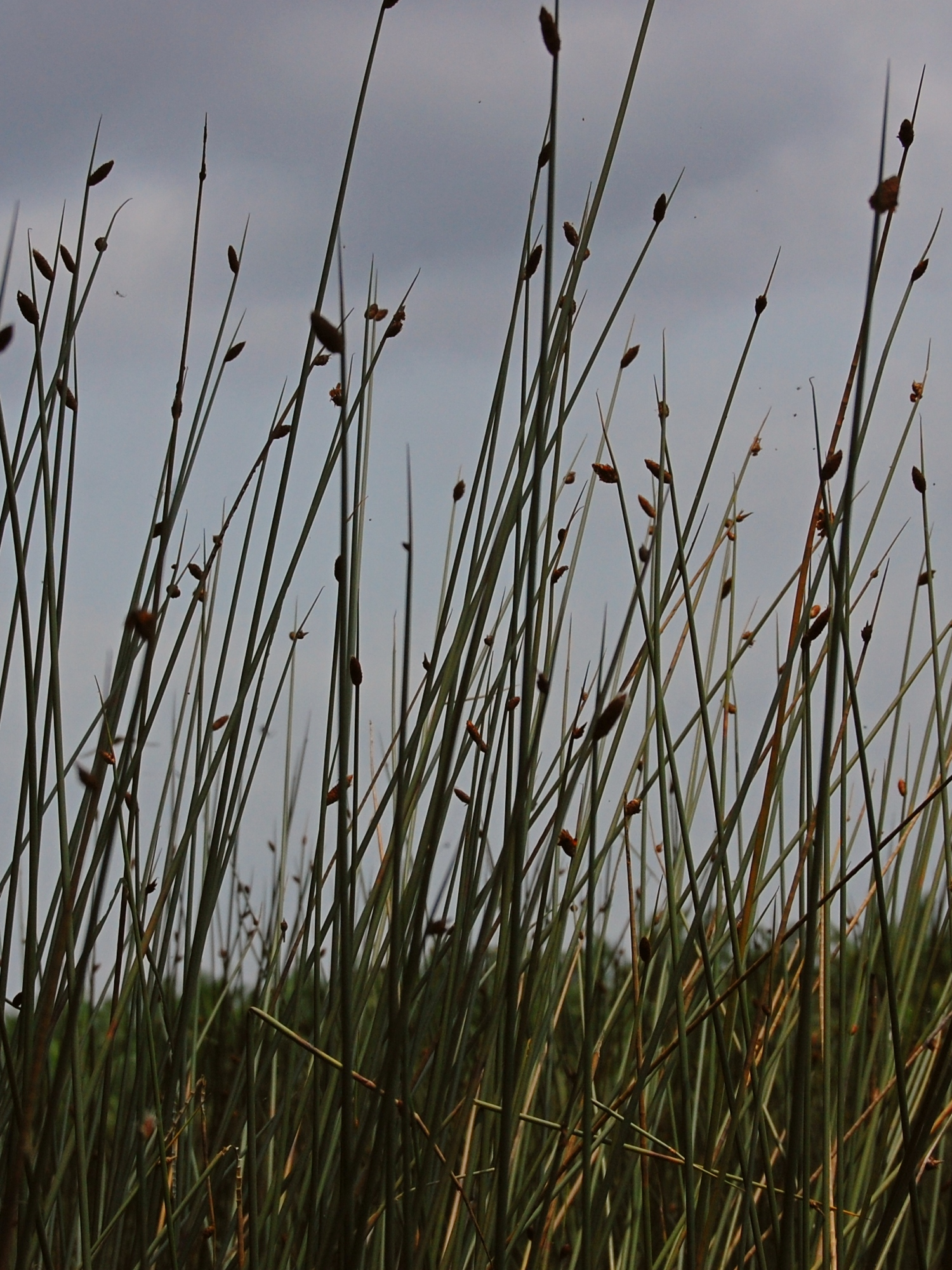 Lepironia articulata at freshwater marsh next to an oil-palm plantation, near Pangkalan Bun, Central Kalimantan, Indonesia.